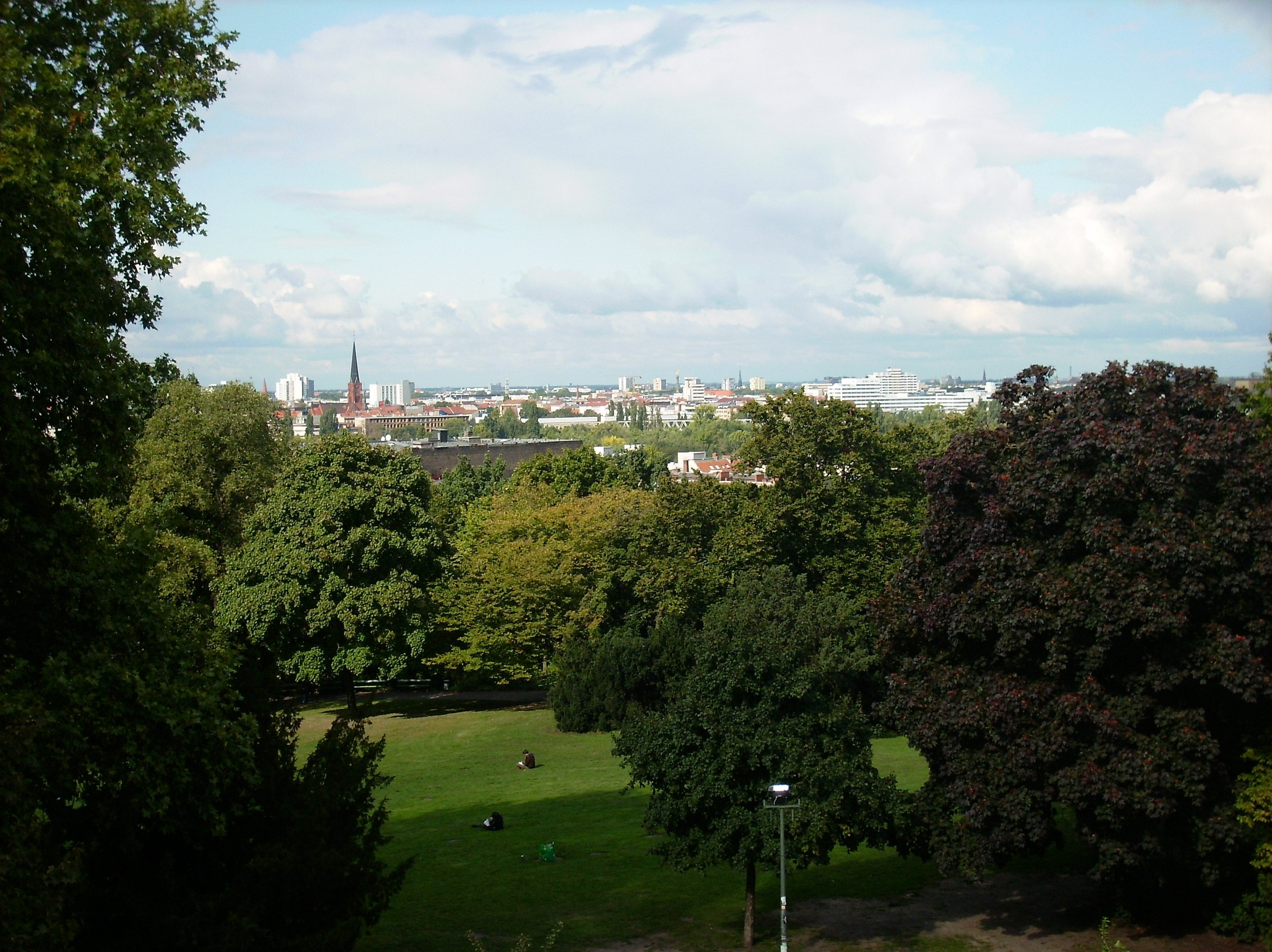 View from the National Monument in Viktoriapark in Berlin-Kreuzbürg in a north-westerly direction